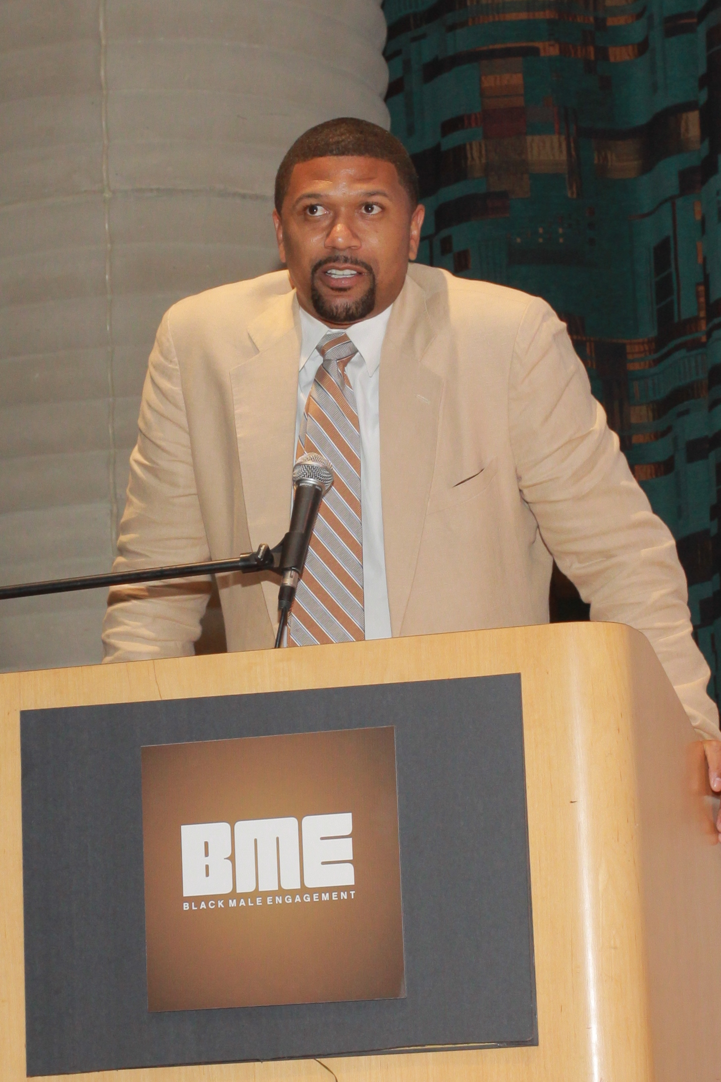 Former NBA Superstar and charter school founder Jalen Rose